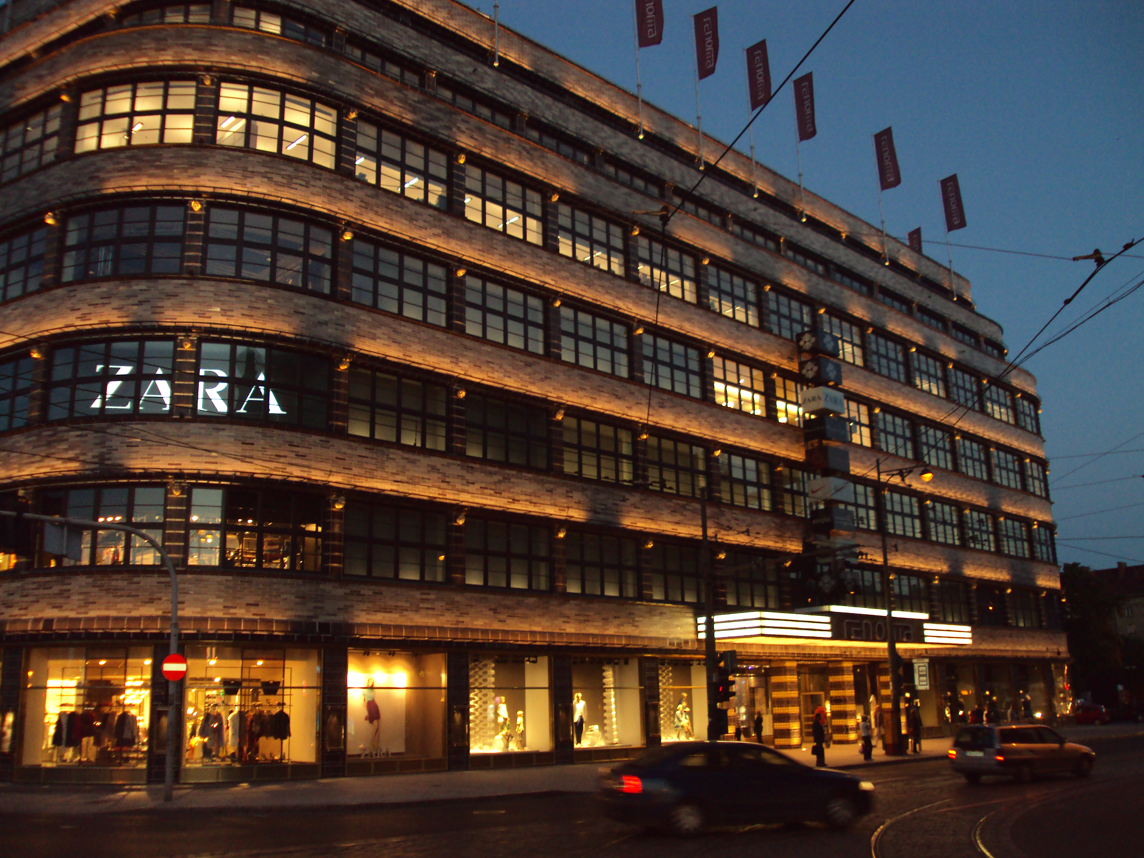 Department store Renoma (old name Wertheim) in Wroclaw, 40 Świdnicka str.